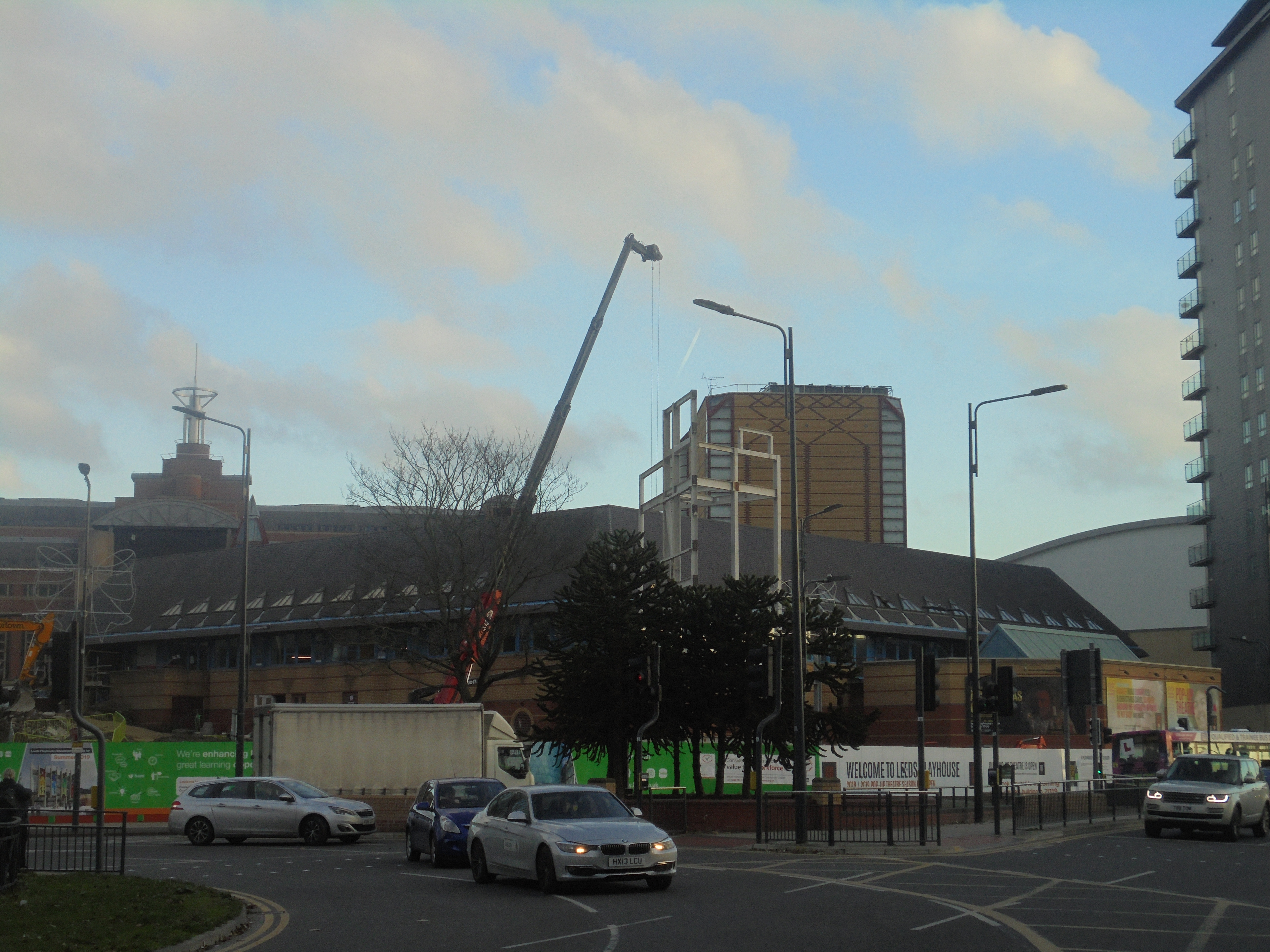 Redevelopment at Leeds Playhouse, Leeds, West Yorkshire. Taken on the afternoon of Thursday the 13th of December 2018.